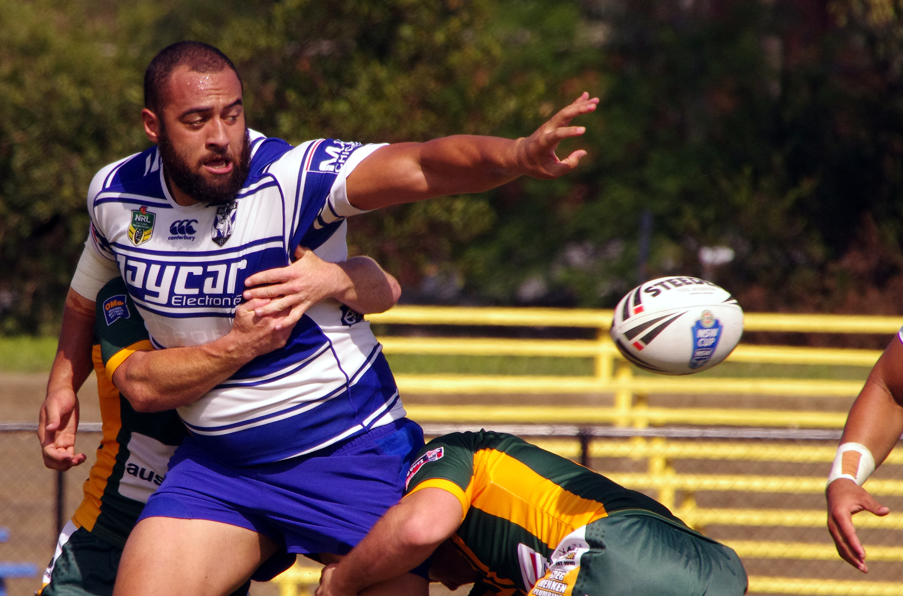 Sam Kasiano